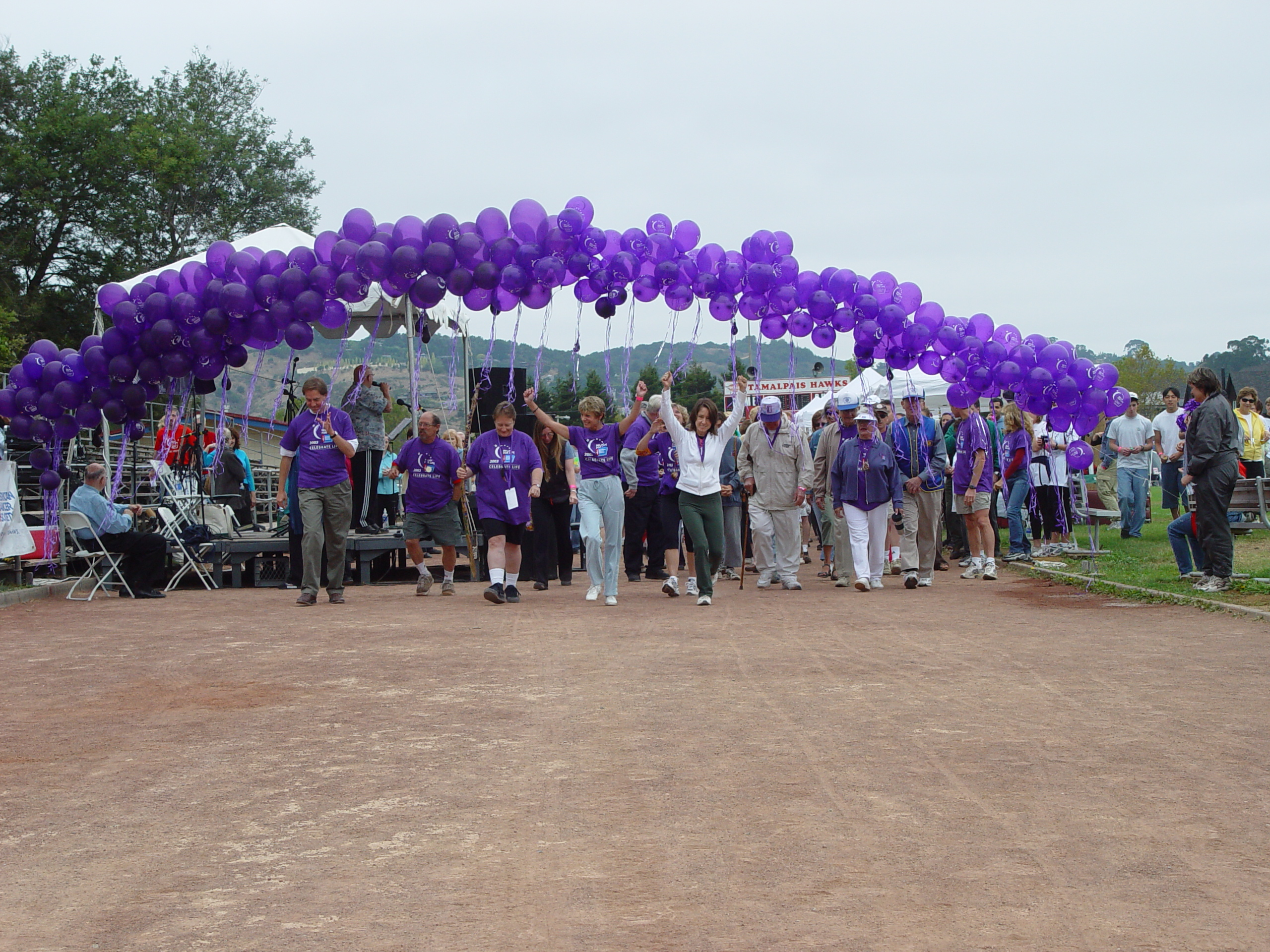 The start of the Survivors Lap at a Relay for Life in Mill Valley, California's Tamalpais High School.